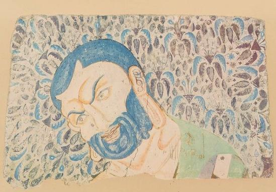 The head of Mahakasyapa, part of a nirvana scene, Kizil caves.